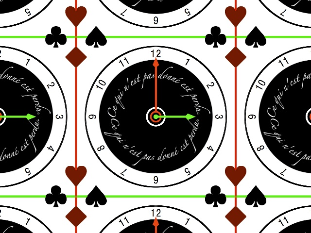 This picture represents the result of a conformal transformation of the complex plane tiled by a clock. Here: the identity.